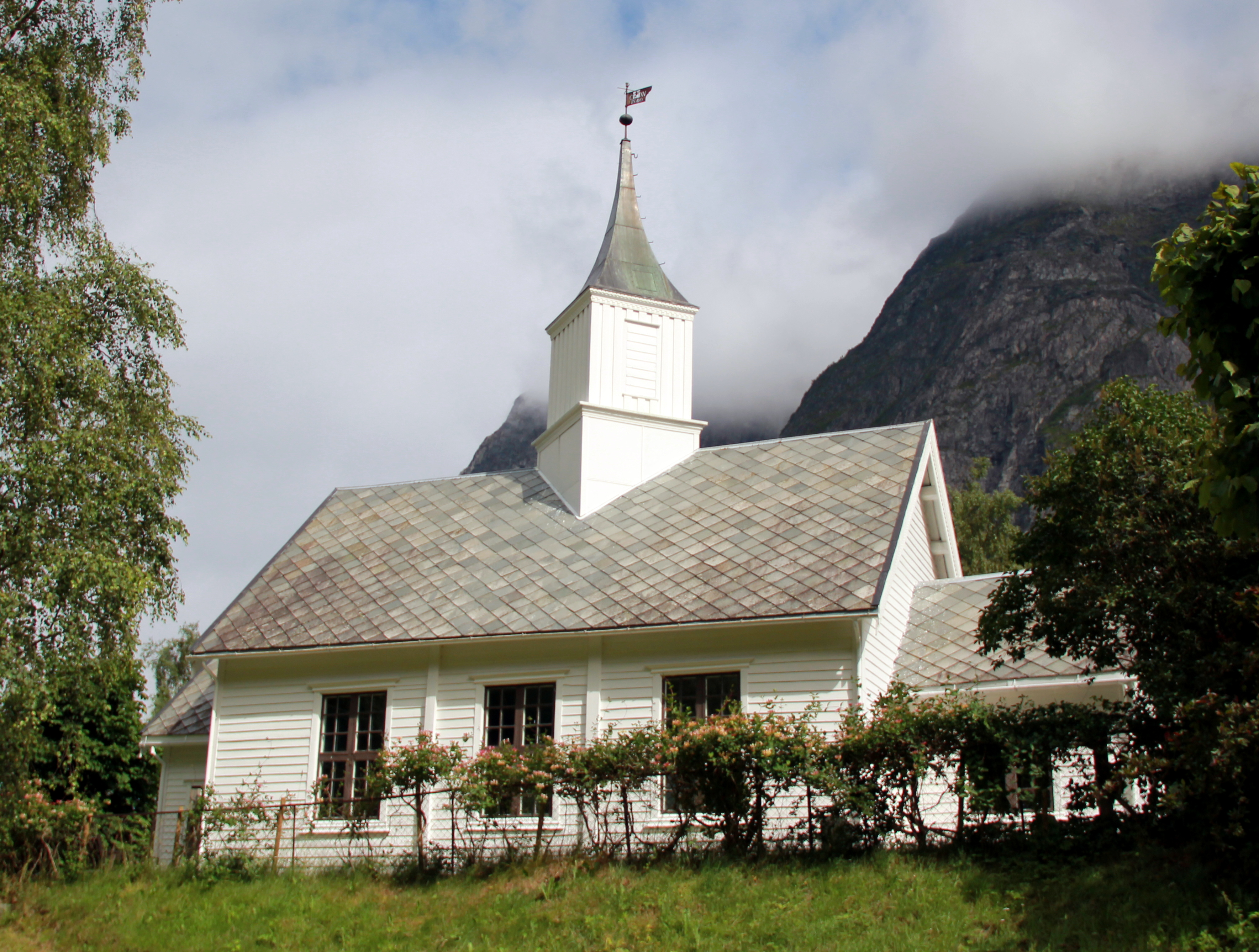 Eikesdal kirke from the south